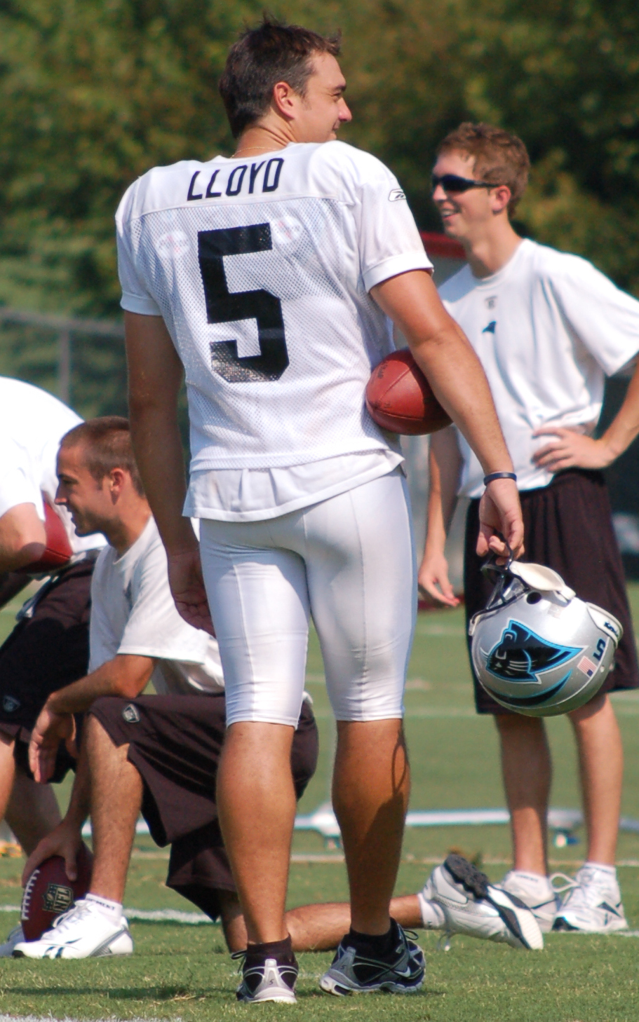 A morning at the Carolina Panther's Training Camp at Wofford College in Spartanburg, S.C. on 8/10/2009